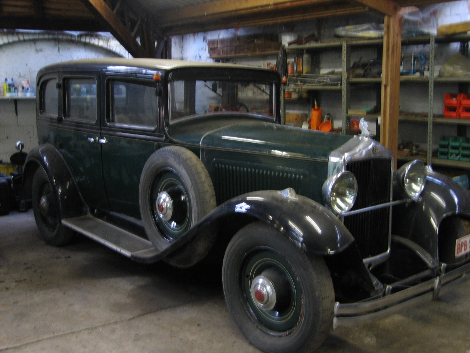 My father's '32 Minerva AR